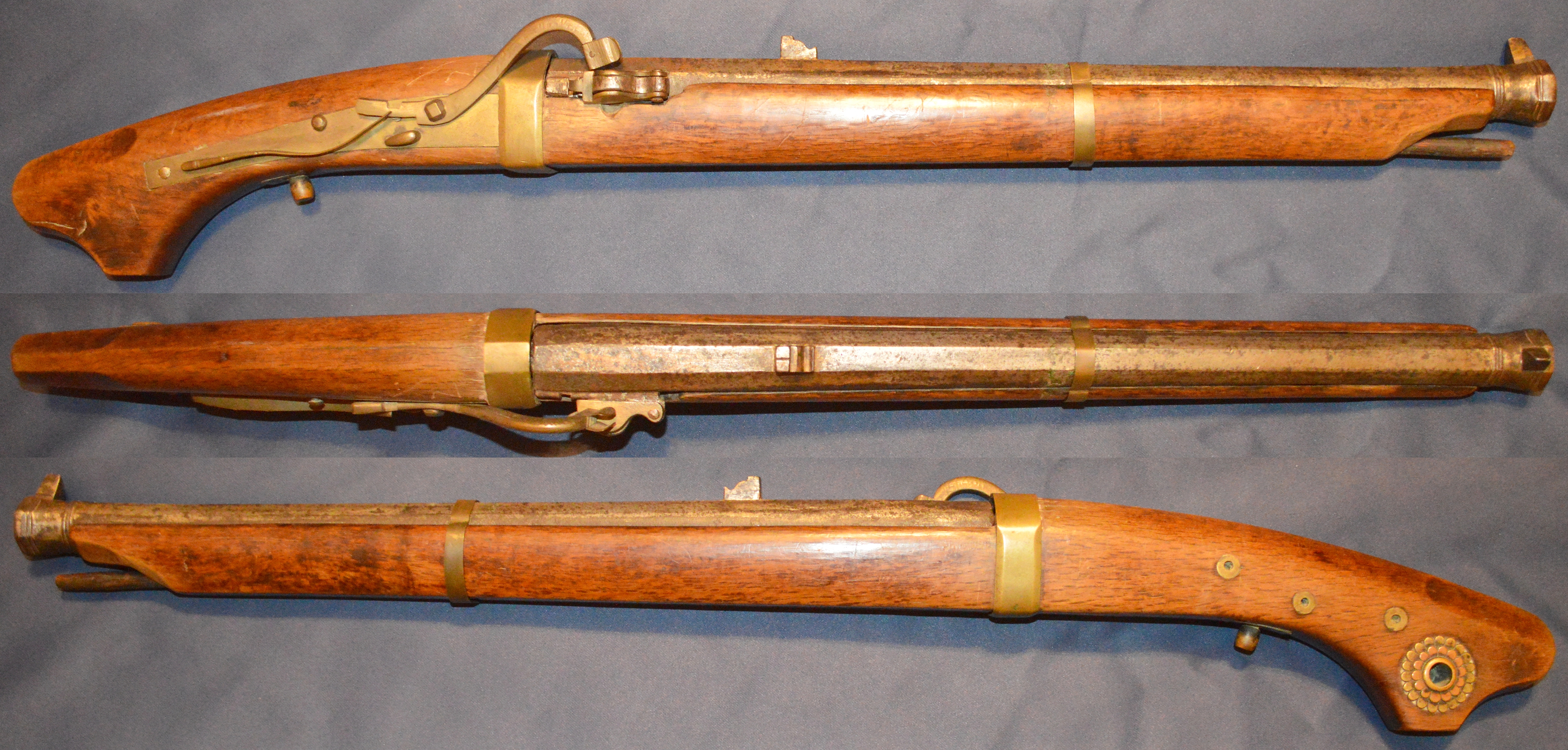 Japanese bajou zutsu, a long pistol used by mounted samurai, 24.5in.